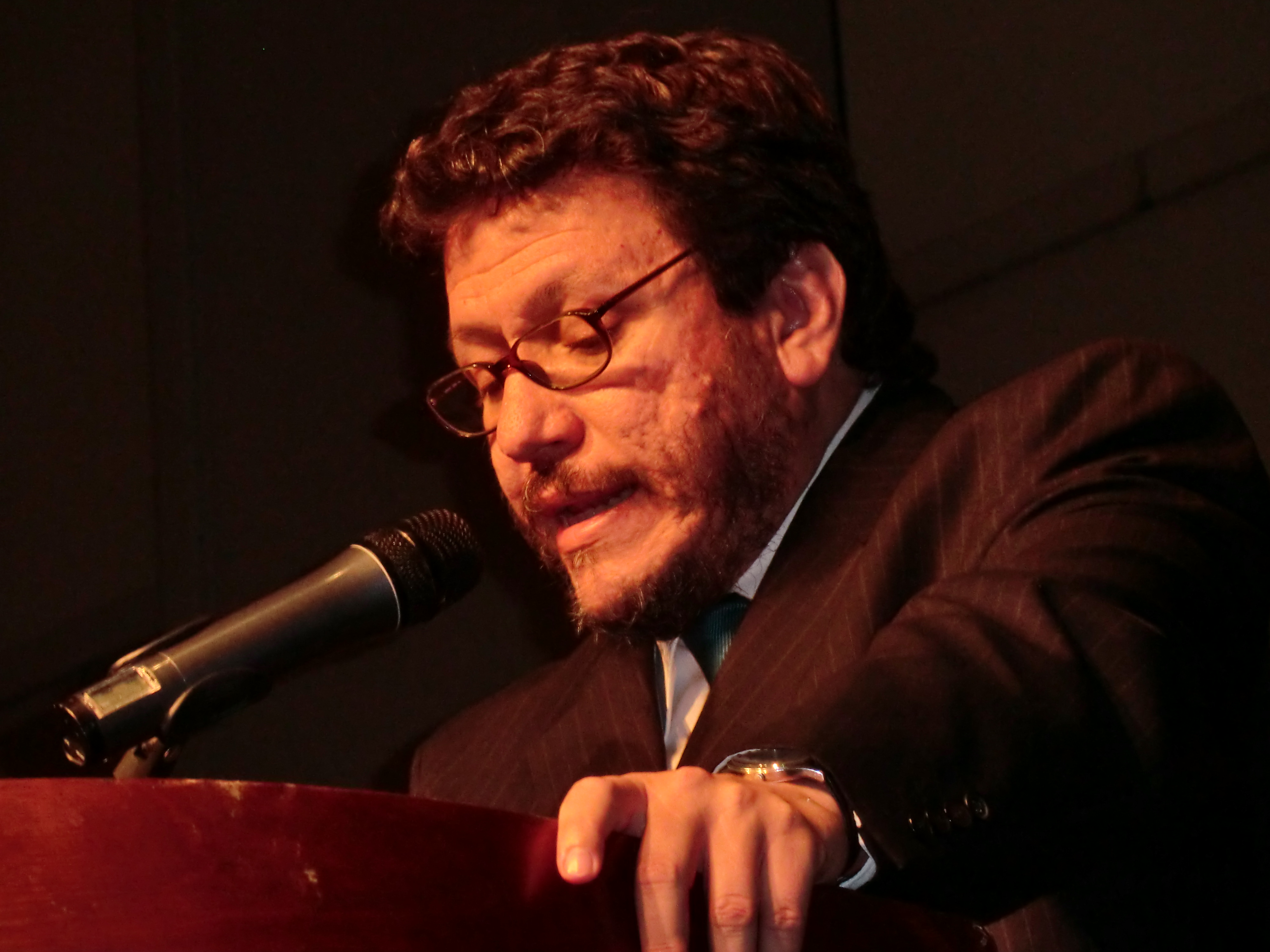 Colombian writer Santiago Gamboa in Caracas, Venezuela.